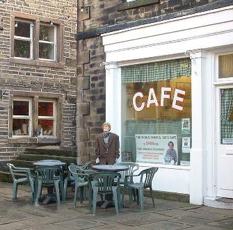 Sid's Cafe, Holmfirth.